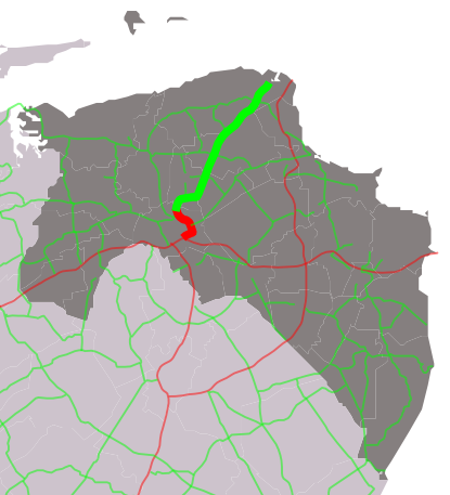 Map of Groningen with Dutch rijksweg and provincial road no. 46